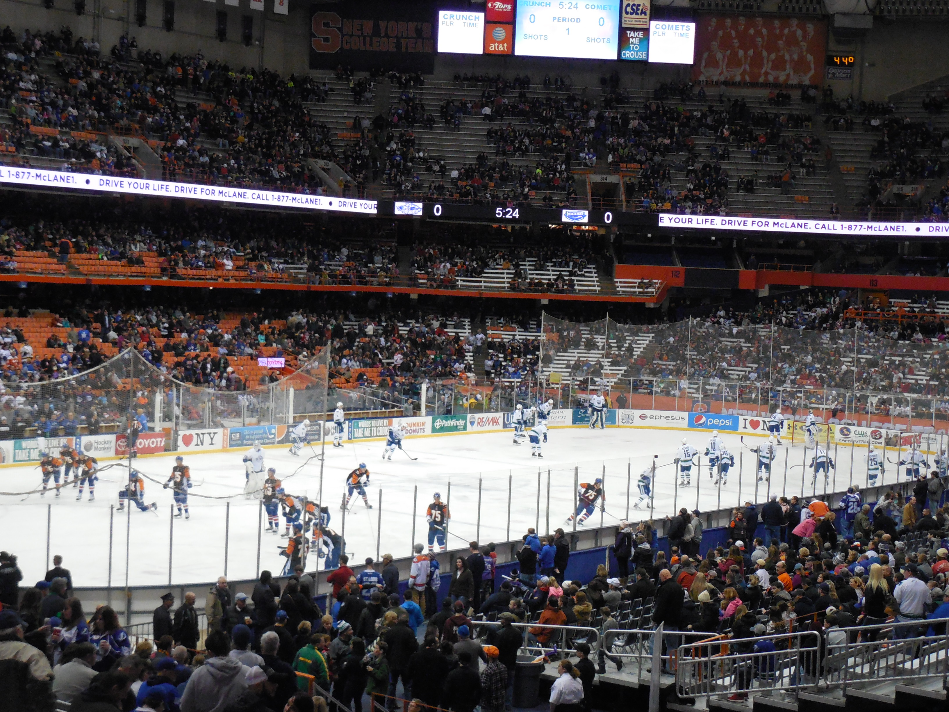 Syracuse Crunch vs. Utica Comets - Frozen Dome Classic - Carrier Dome - Syracuse, New York - November 22, 2014